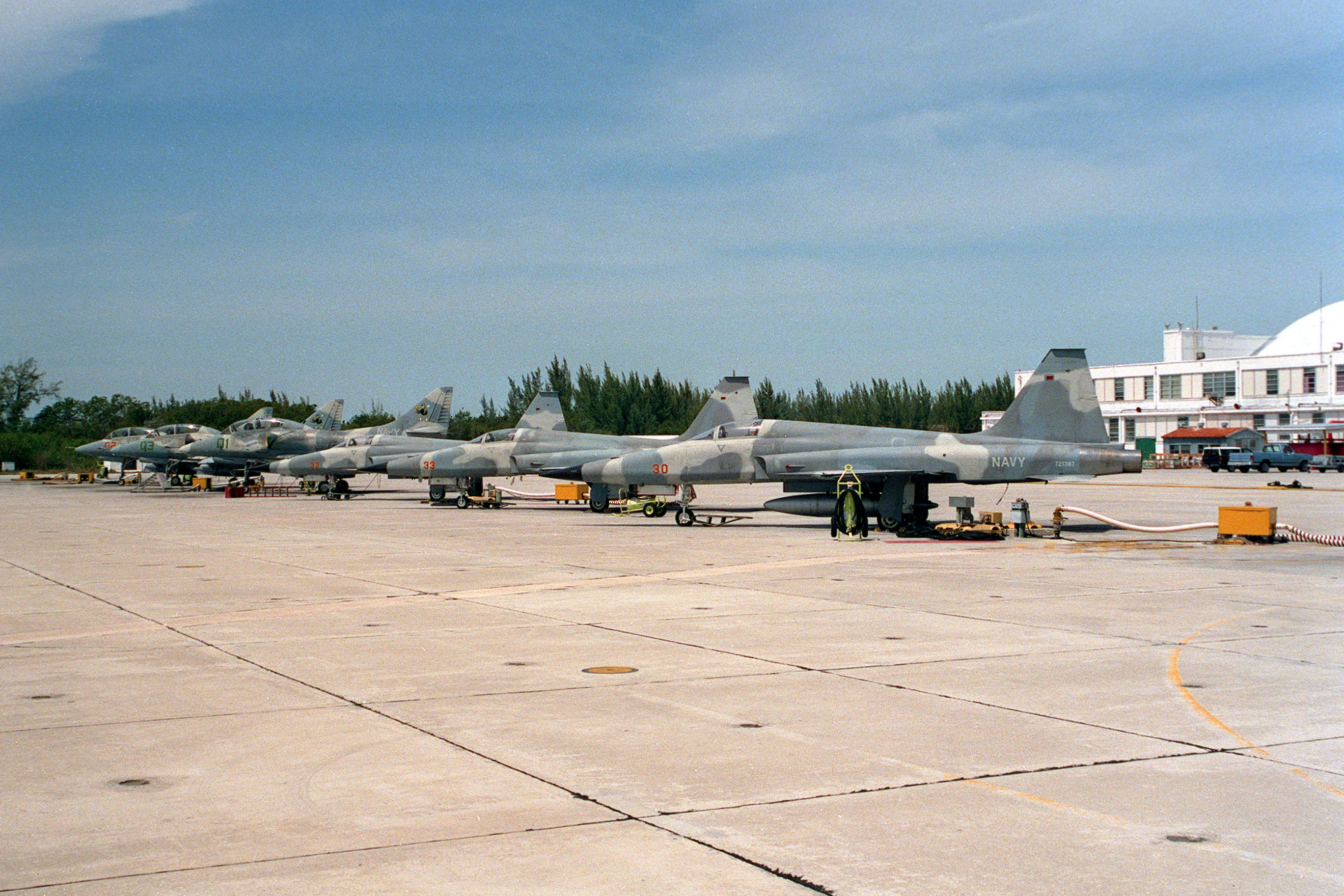 A U.S. Navy Northrop F-5N Tiger II and Douglas TA-4J Skyhawk aircraft of Fighter Squadron VF-45 "Blackbirds" parked on the flight line at Naval Air Station Key West, Florida (USA). The aircraft were painted in an adversary paint scheme for training purposes.